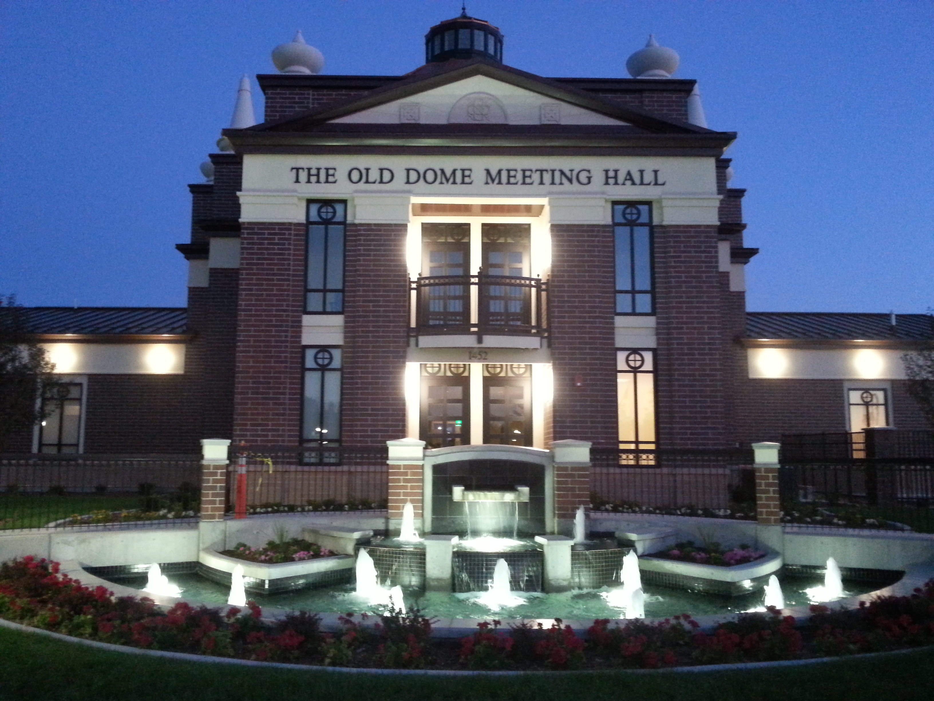 A photo of the Old Dome Meeting Hall, located in Riverton City Park in Riverton, Utah.